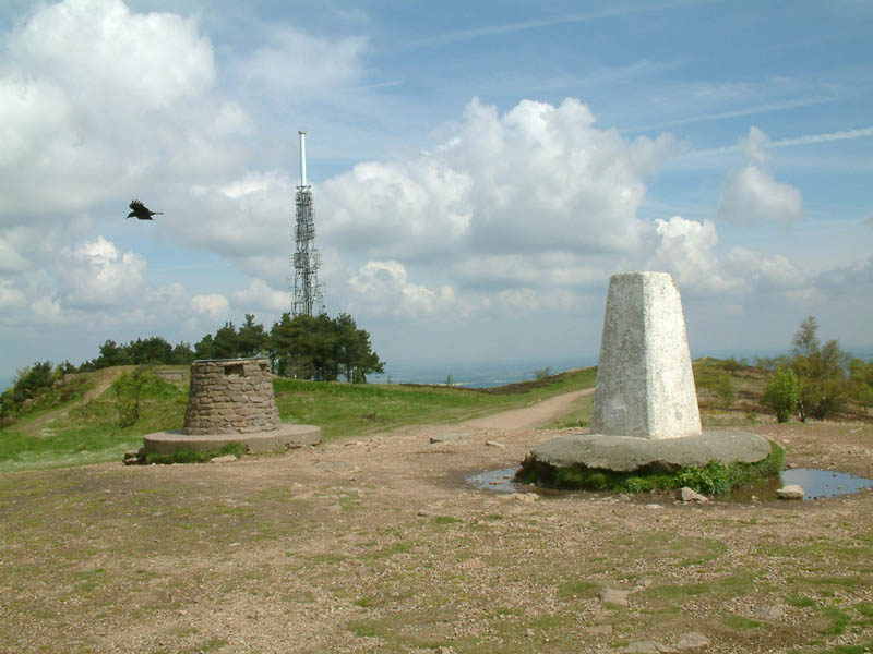 The summit of The Wrekin with its trig point, toposcope (viewfinder), and the "Beacon on The Wrekin", erected in 1999 for the Millennium celebration.